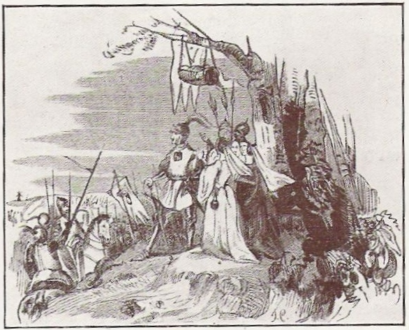 Godfrey III of Brabant in his crib on the branch of an oak tree during the battle of Ransbeek.